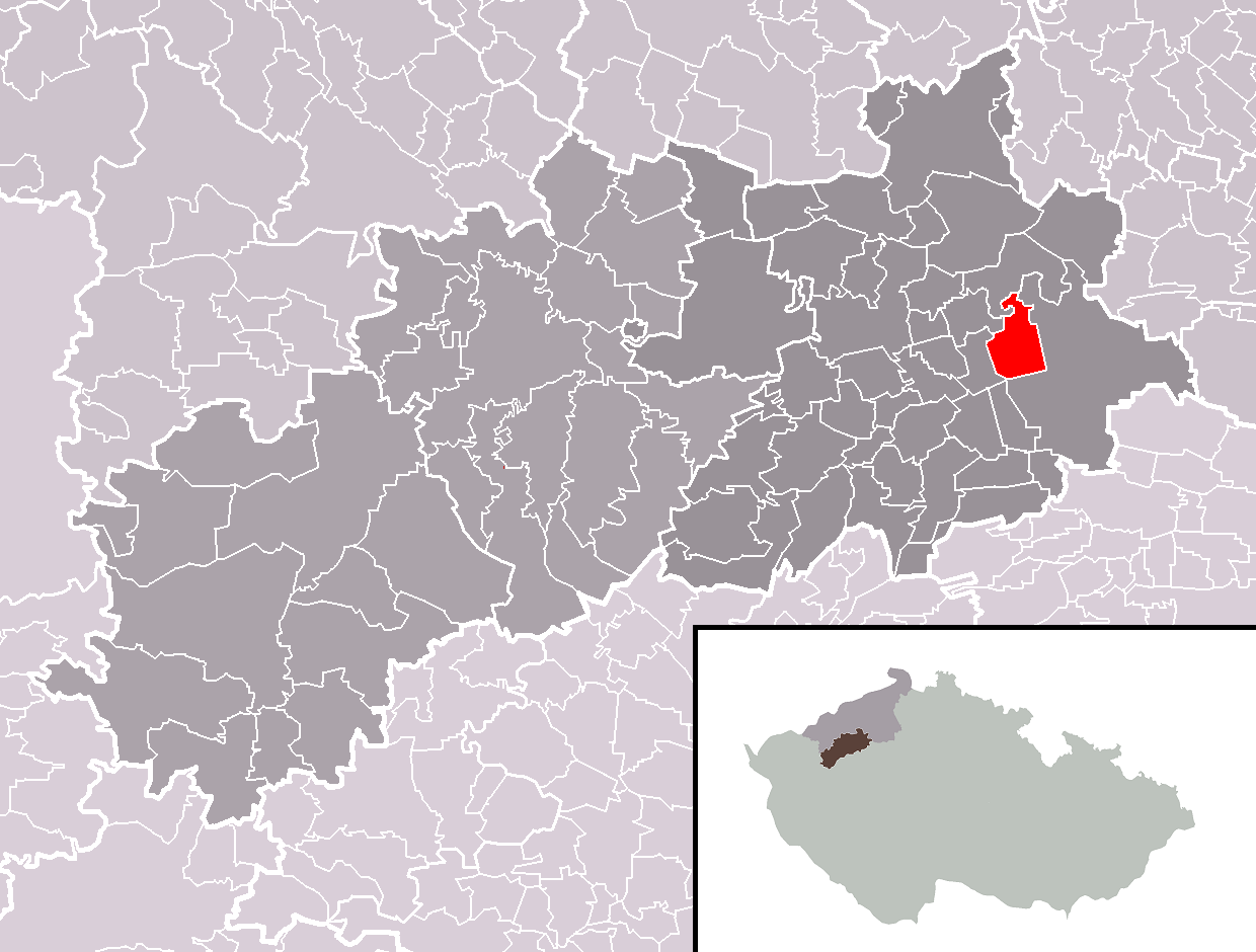 Location of Slavětín market town within Louny District and administrative area of Louny as a Municipality with Extended Competence.